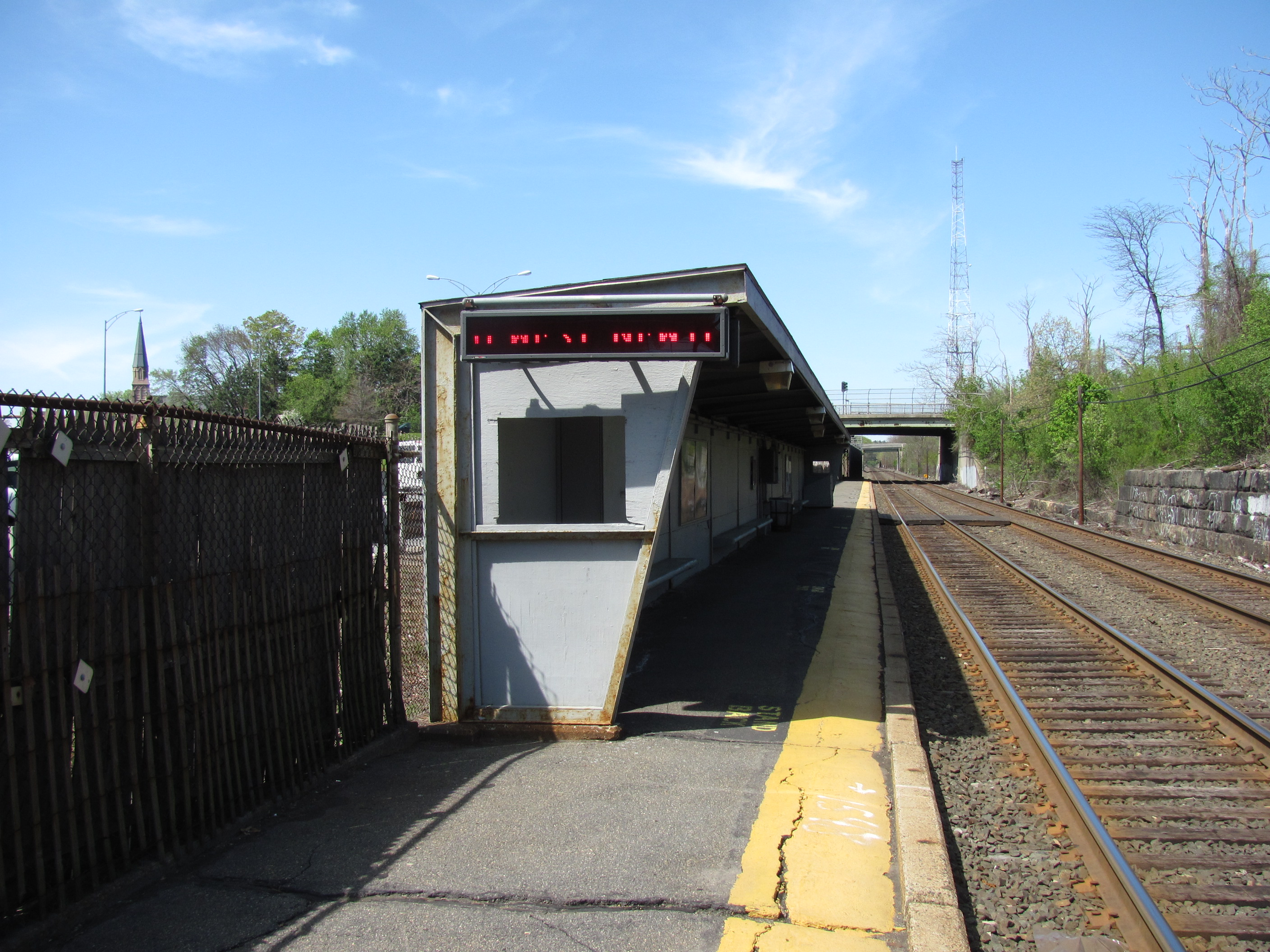 West Newton MBTA Station, West Newton Massachusetts, looking west